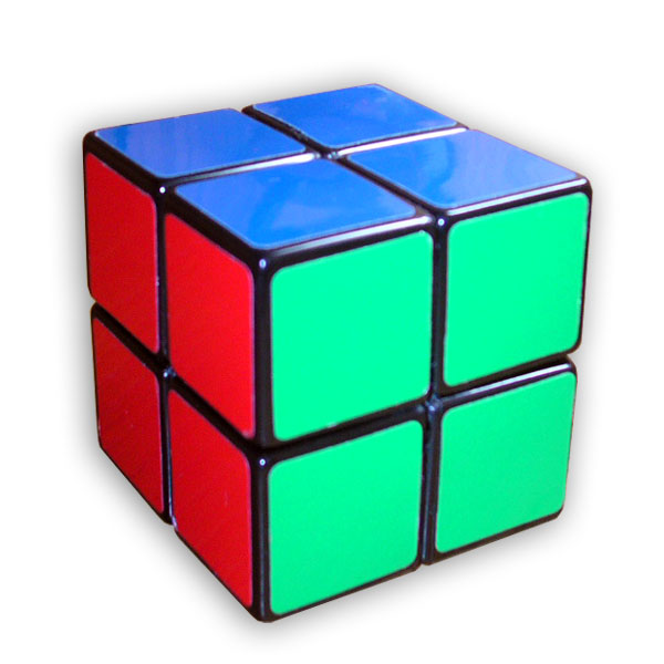 Pocket Cube in solved state